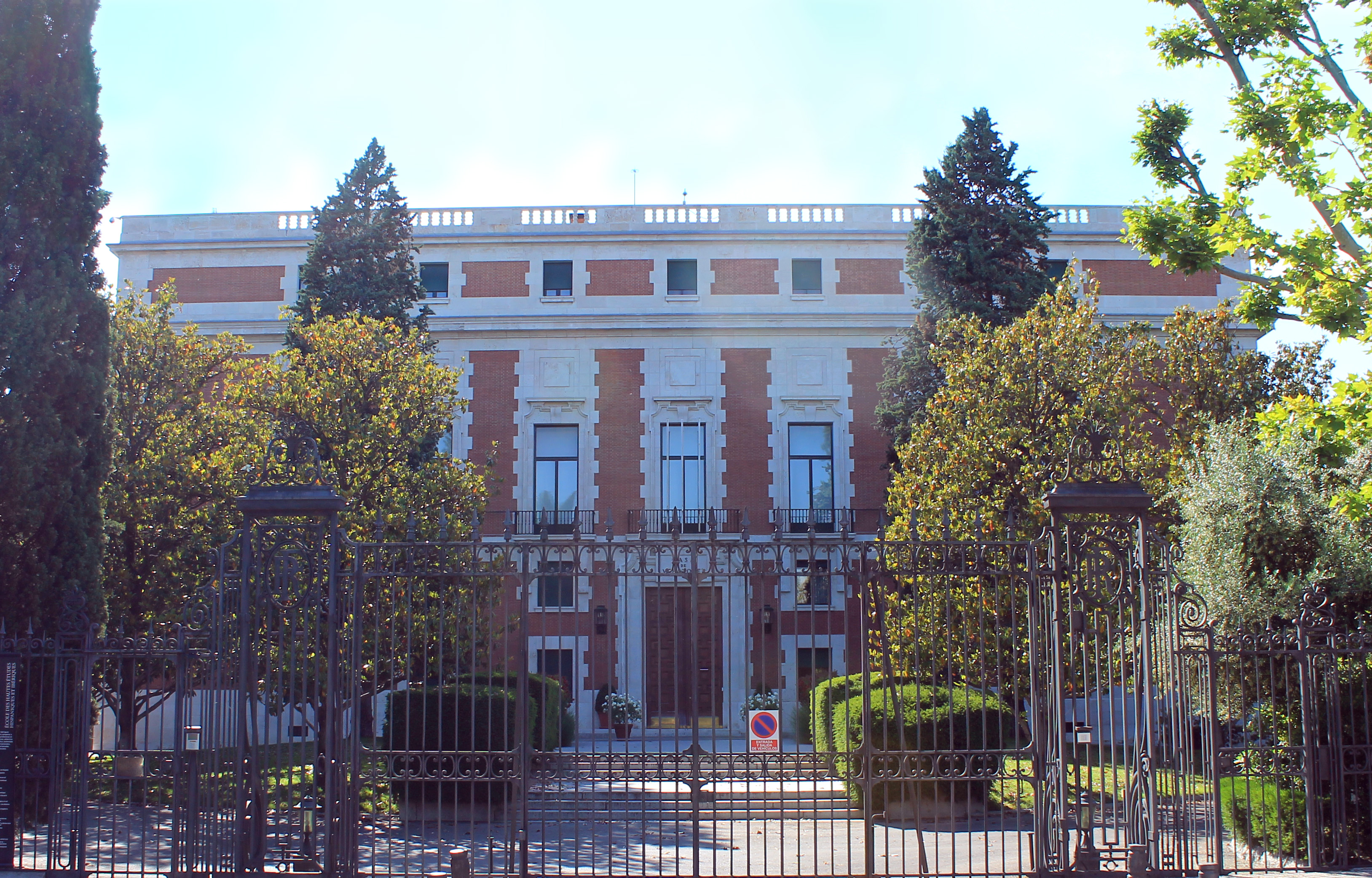 South-east façade of Casa de Velázquez in Madrid (Spain).